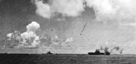 A Japanese Aichi D3A "Val" dive-bomber is shot down over the U.S. Navy aircraft carrier USS Enterprise (CV-6) during the Battle of the Santa Cruz Islands on 26 October 1942. Note the battleship USS South Dakota (BB-57) heading in the opposite direction.